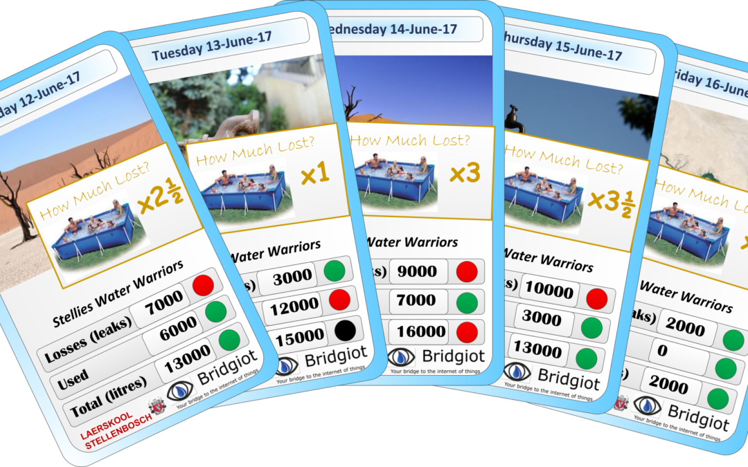 Playing cards were used to help raise awareness with children, and to help them conceptualised the volumetric quantities.